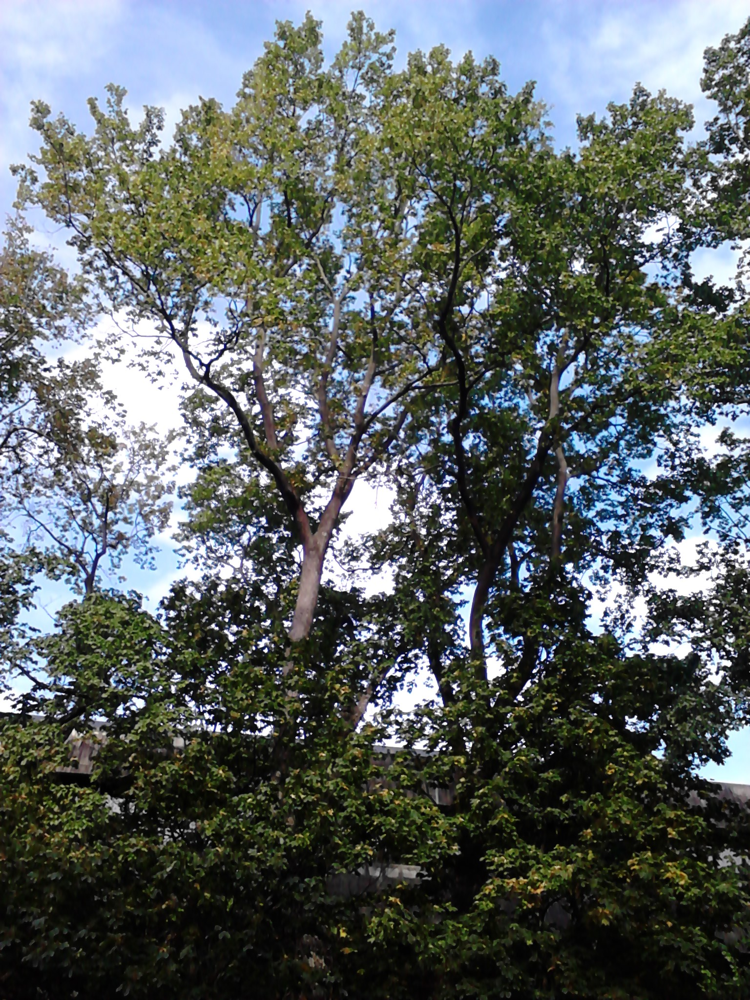 See title